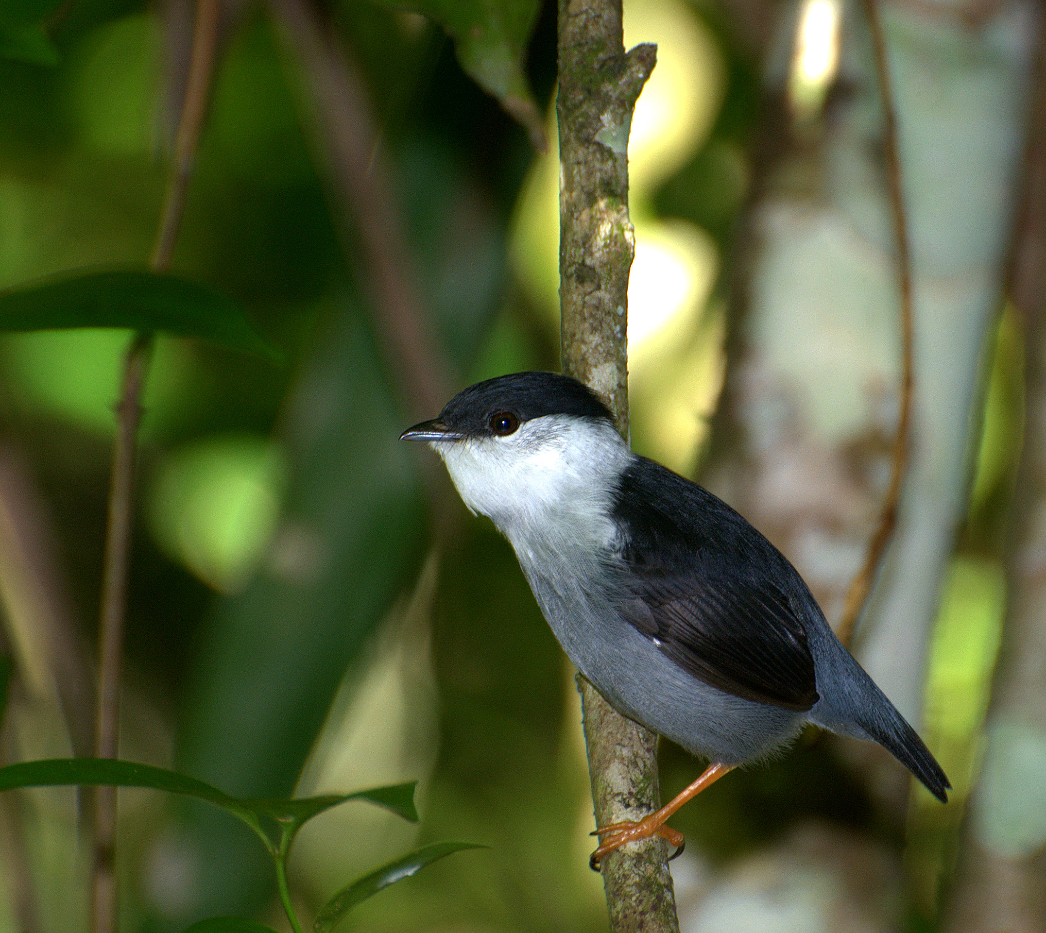 White-bearded Manakin - (Manacus manacus) Vale do Ribeira - Registro-SP - Brasil